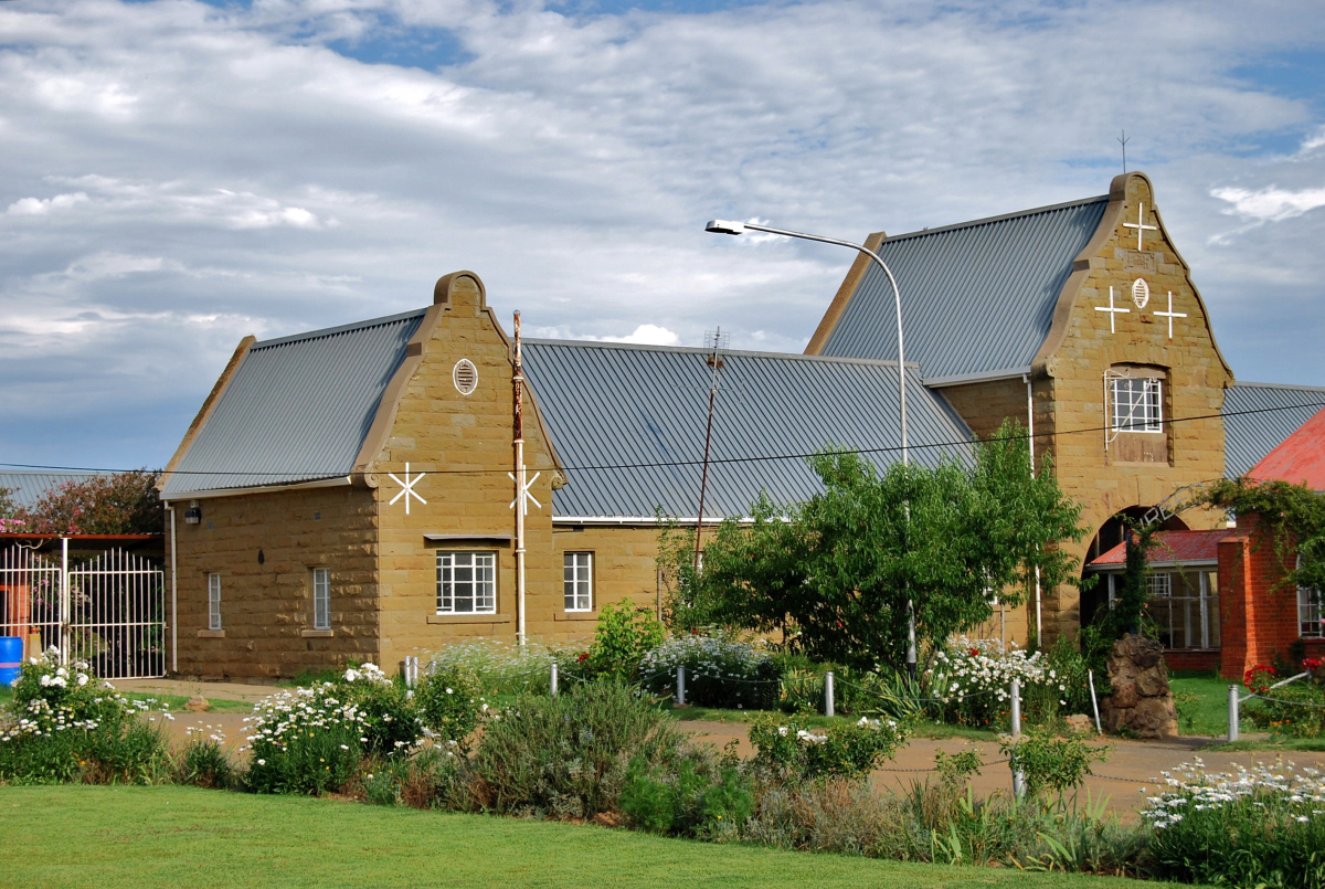 Old hostel, Tweespruit High School, Excelsior District This media shows a South African Protected Site with SAHRA file reference 9/2/311/0001.